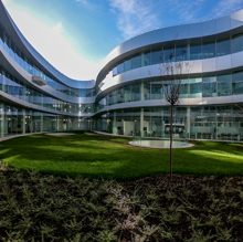 SDA Bocconi Building